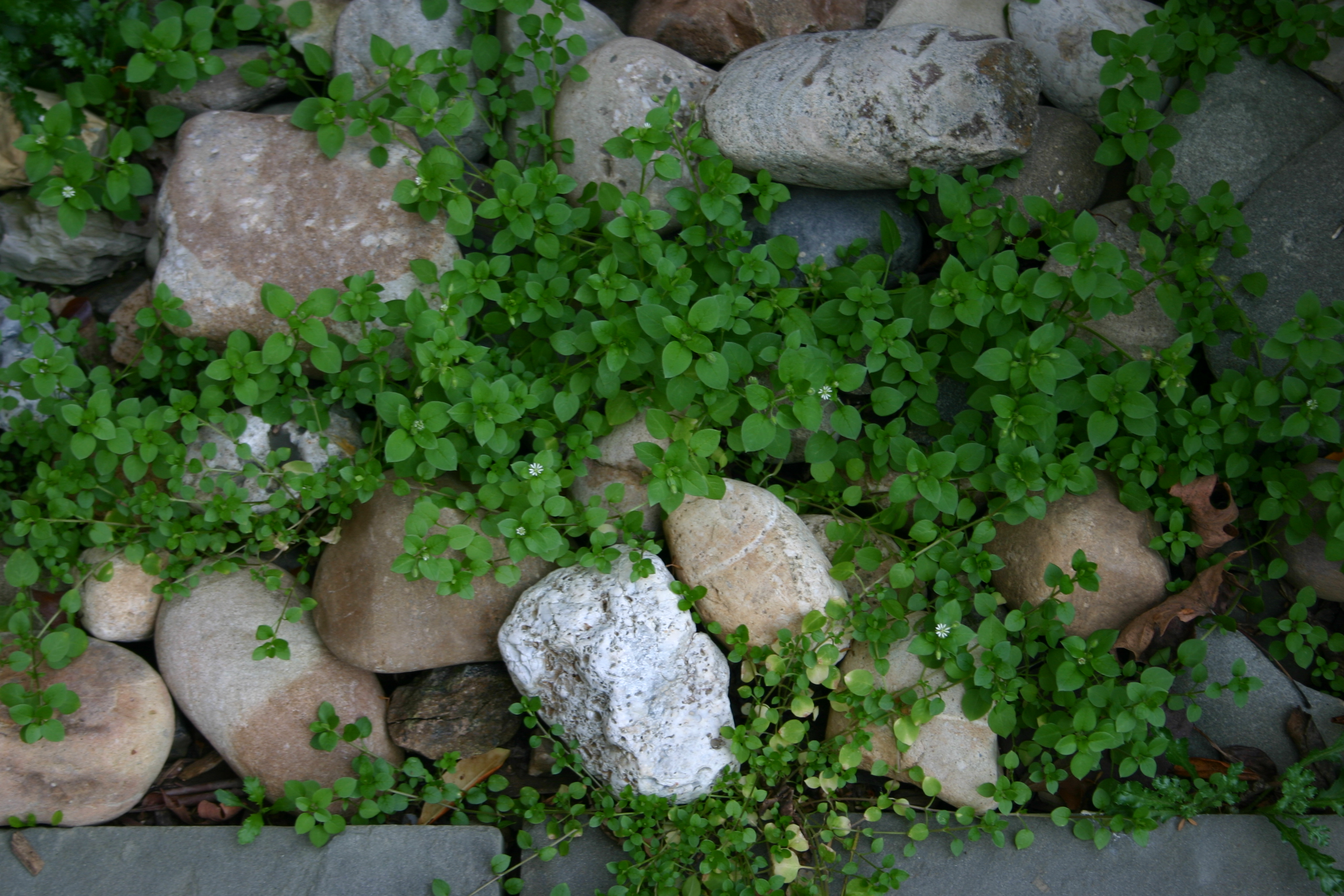 Stellaria media growing in riverjack mulch